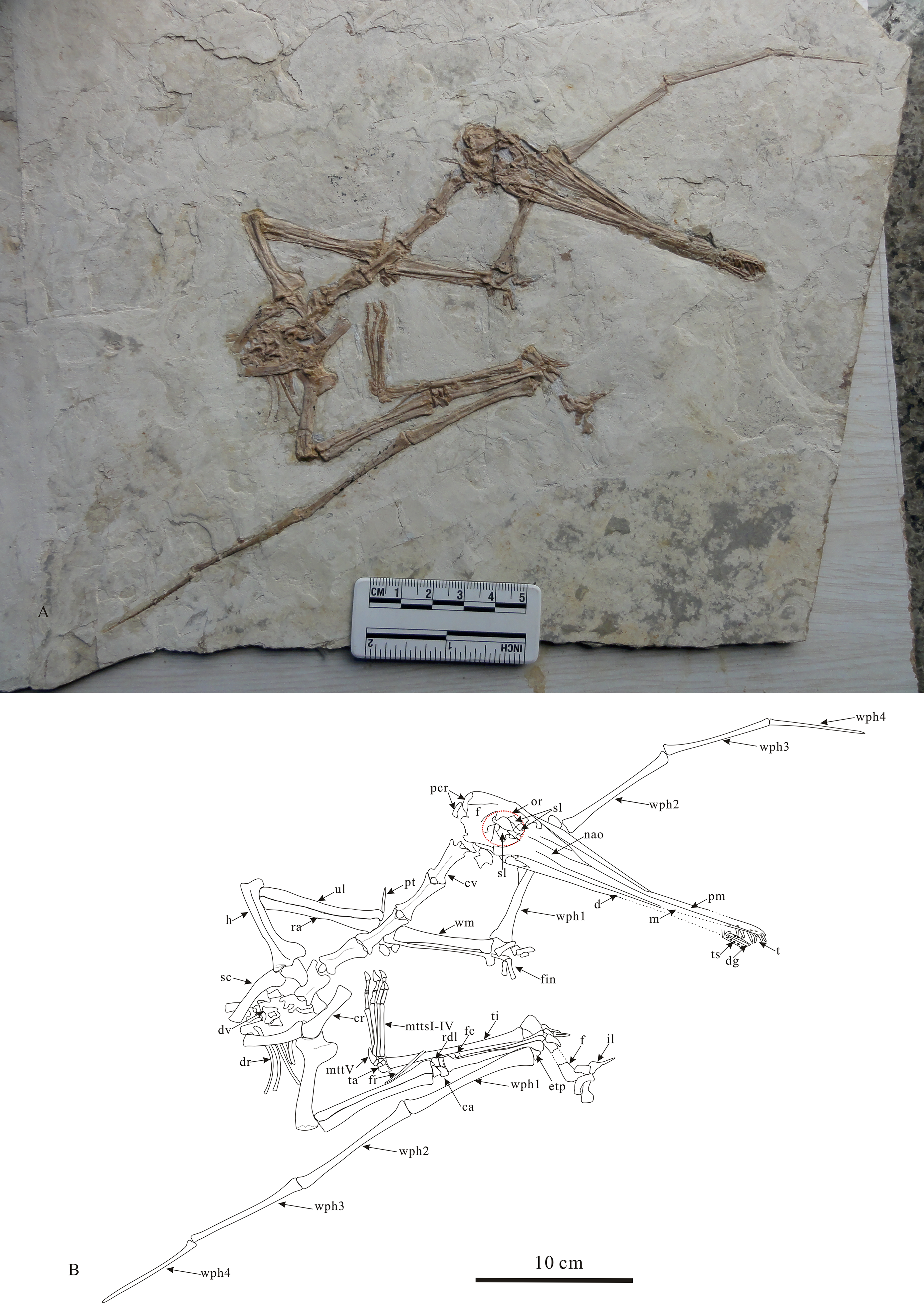 Photograph (A) and line drawings (B) of Gladocephaloideus jingangshanensis (JPM 2014–004). Abbreviations: ca, carpals; cr, coracoids; cv, cervical vertebrae; d, dentray; dg, deep groove along the mid-line of the mandibular symphysis; dv, dorsal vertebrae; dr, dorsal ribs; etp, extensor tendon process; f, frontal; fc, fifth carpal; fe, femur; fi, fibula; fin, fingers; h, humerus; il, ilium; m, maxilla; mmttsI-IV, metatrals I-IV; mttv, metatarsal V; nao, nasoantorbital opening; or, orbital; pcr, parietal crest; pm, premaxilla; pt, pteroid; ra, radius; rdl, radiale; sc, scapula; st, sternum; sl, sclerotic rings; t, teeth; tc, tooth sockets; ti, tibia; ul, ulna; wm, wing metacarpal; wph1-4, wing phalanges 1–4. Scale bar = 5 cm.